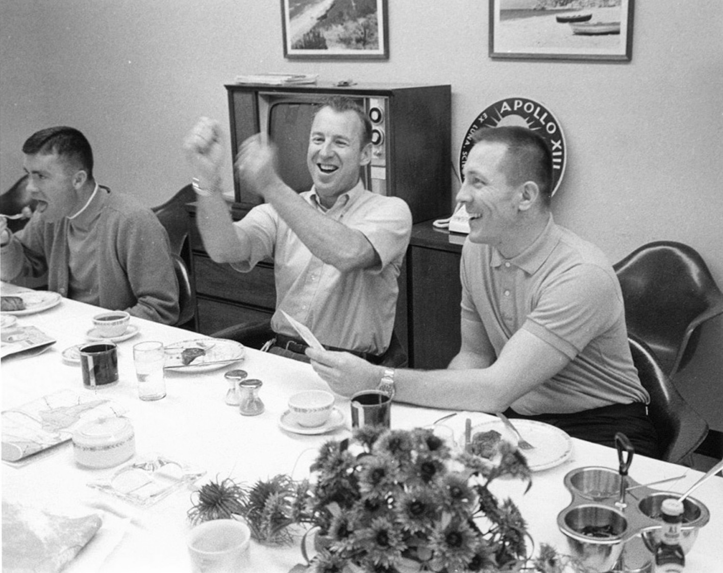 Fred Haise (left), Jim Lovell, and Jack Swigert, at breakfast on launch day.